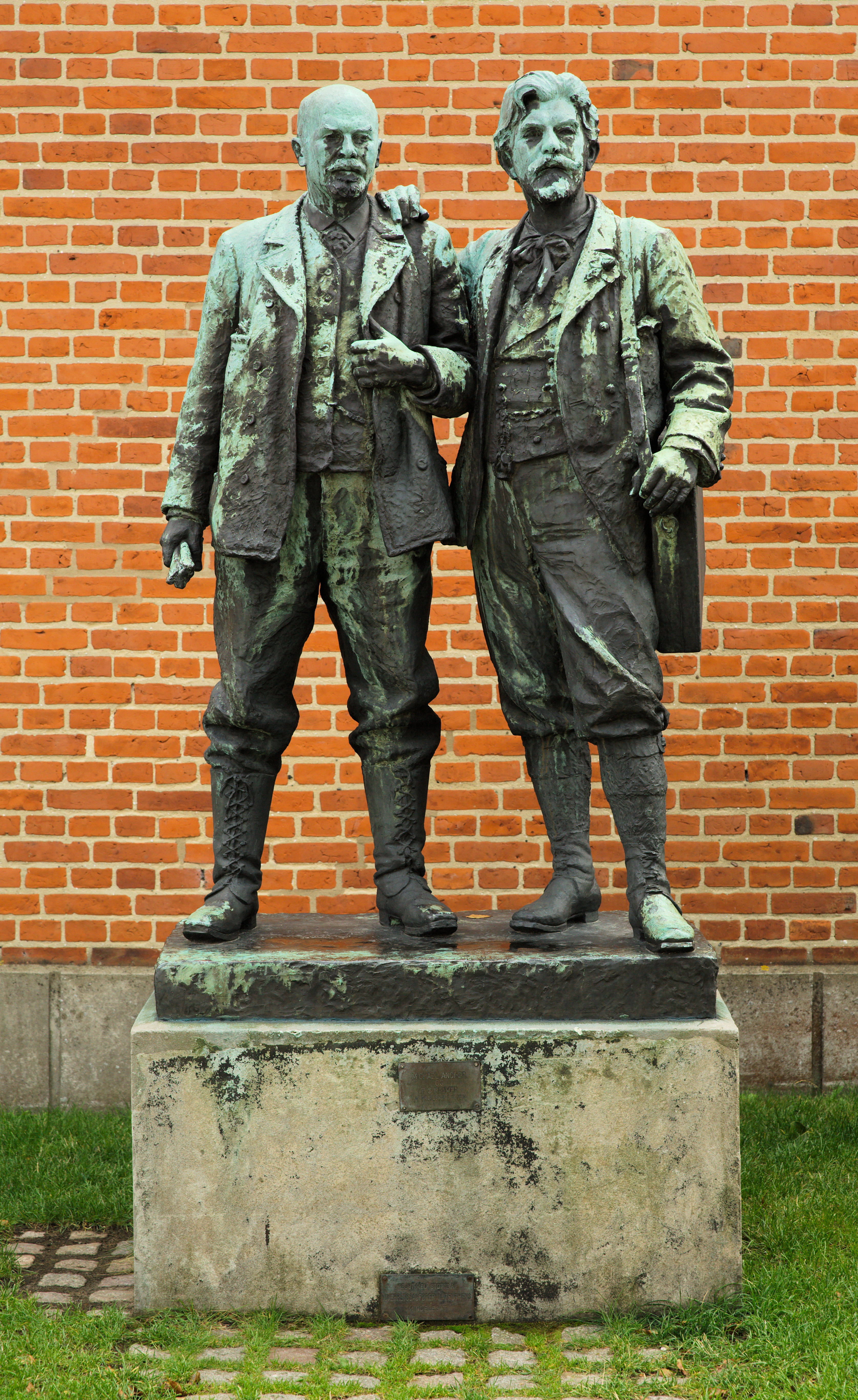 Michael Ancher and PS Krøyer sculpture by Laurits Tuxen